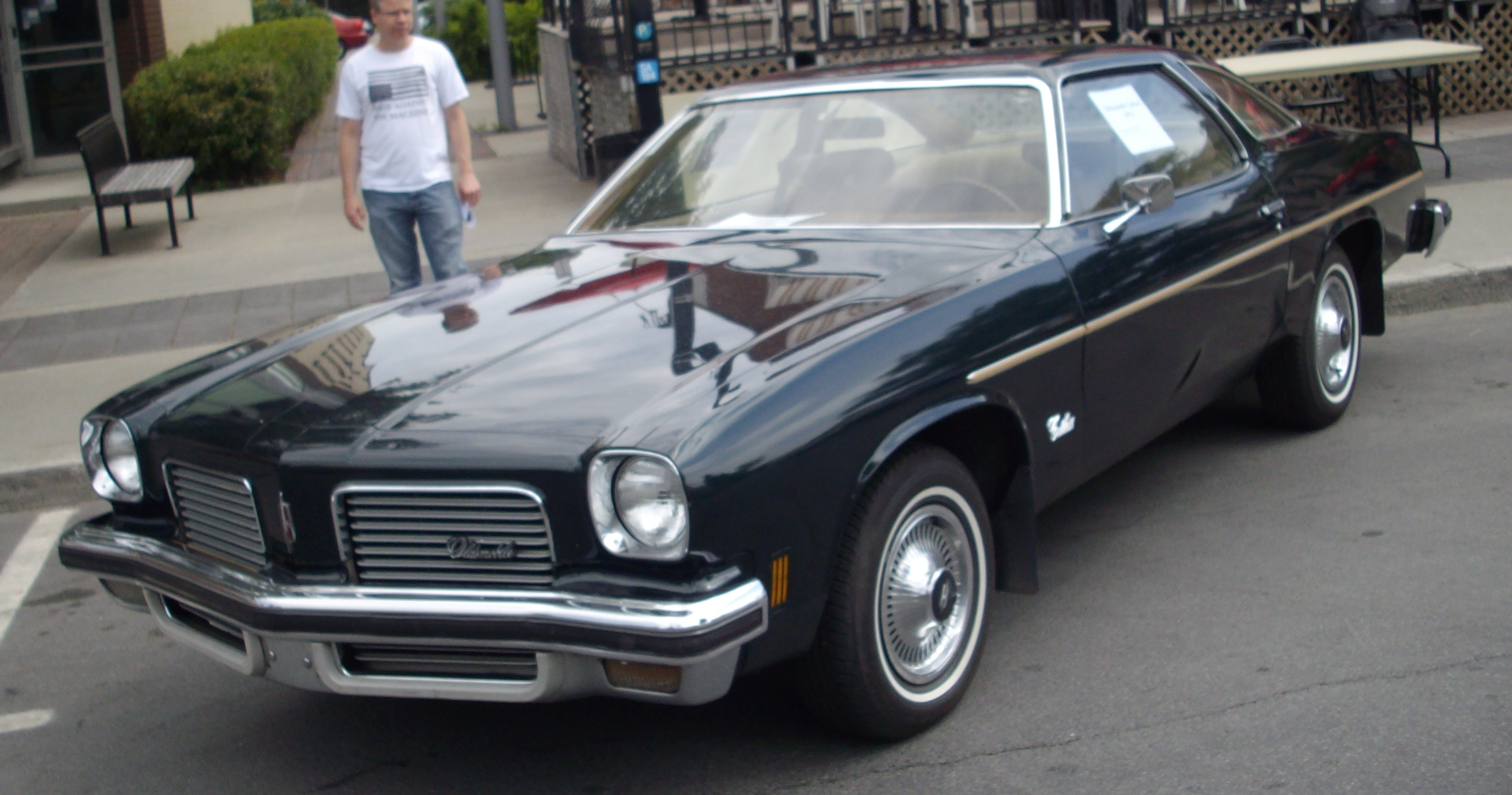 1974 Oldsmobile Cutlass photographed in Montréal, Quebec, Canada at Destination Décarie 2012.